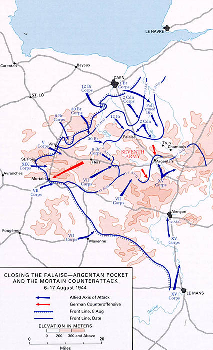 Map of the Falaise PocketDownloaded from [1] Category:Maps of the history of Europe Category:Maps of World War II in Europe